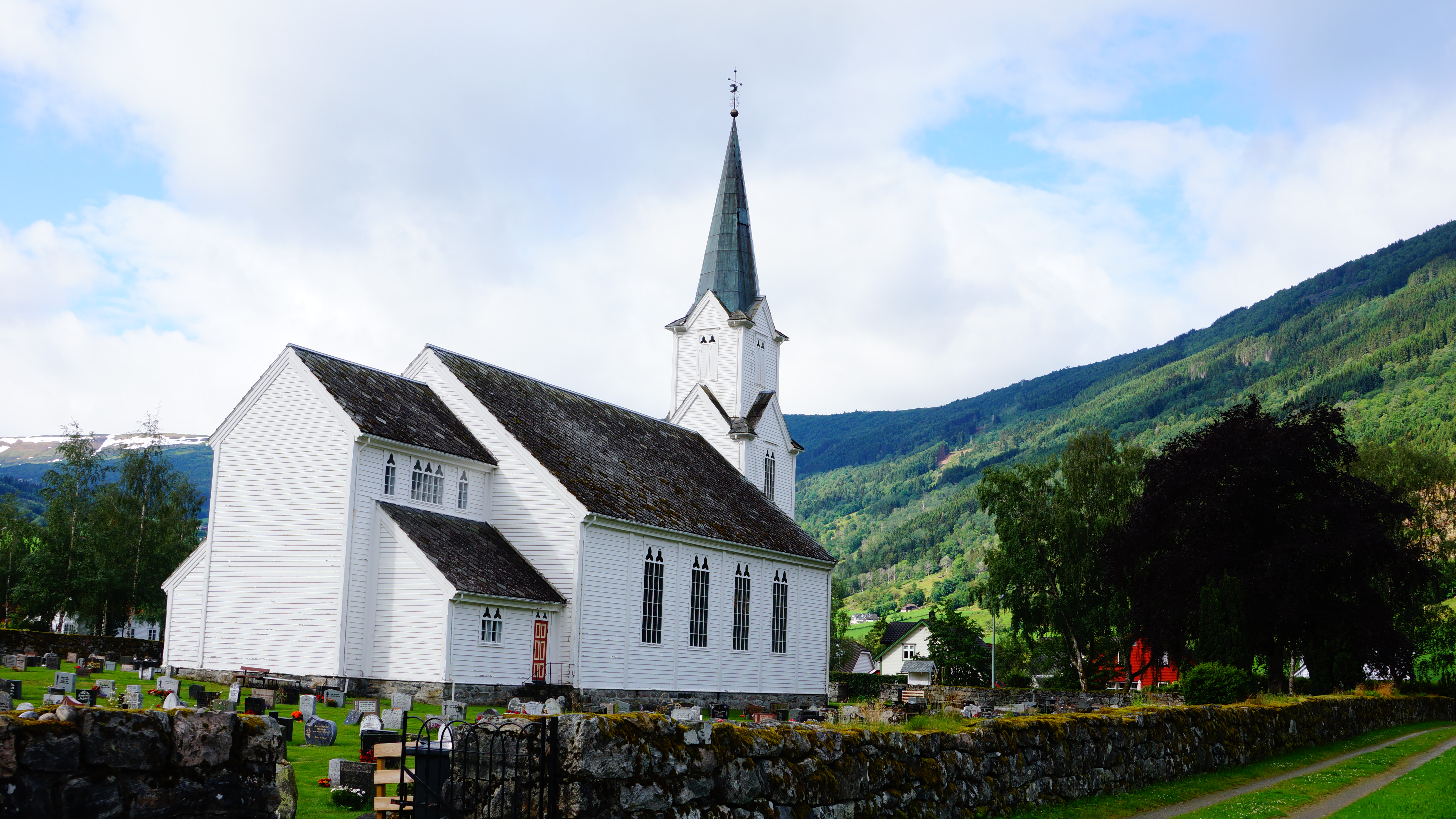 The church of Vik (Vik i Sogn) and its cemetery viewed from behind